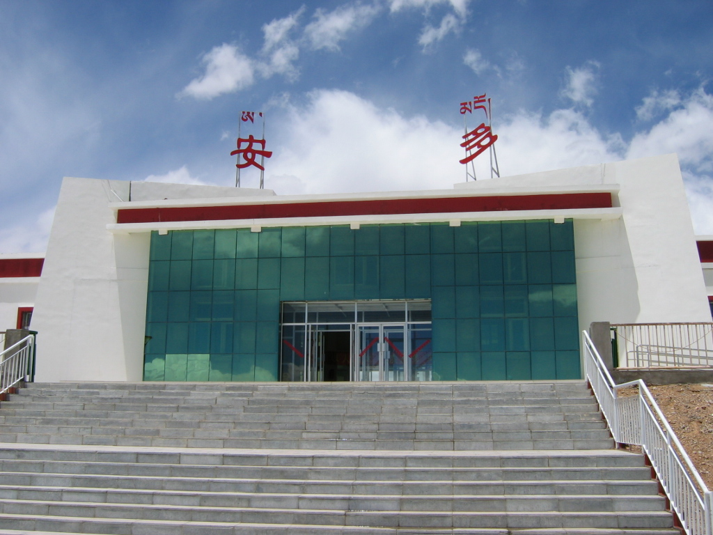 Qingzang railway Amdo Station